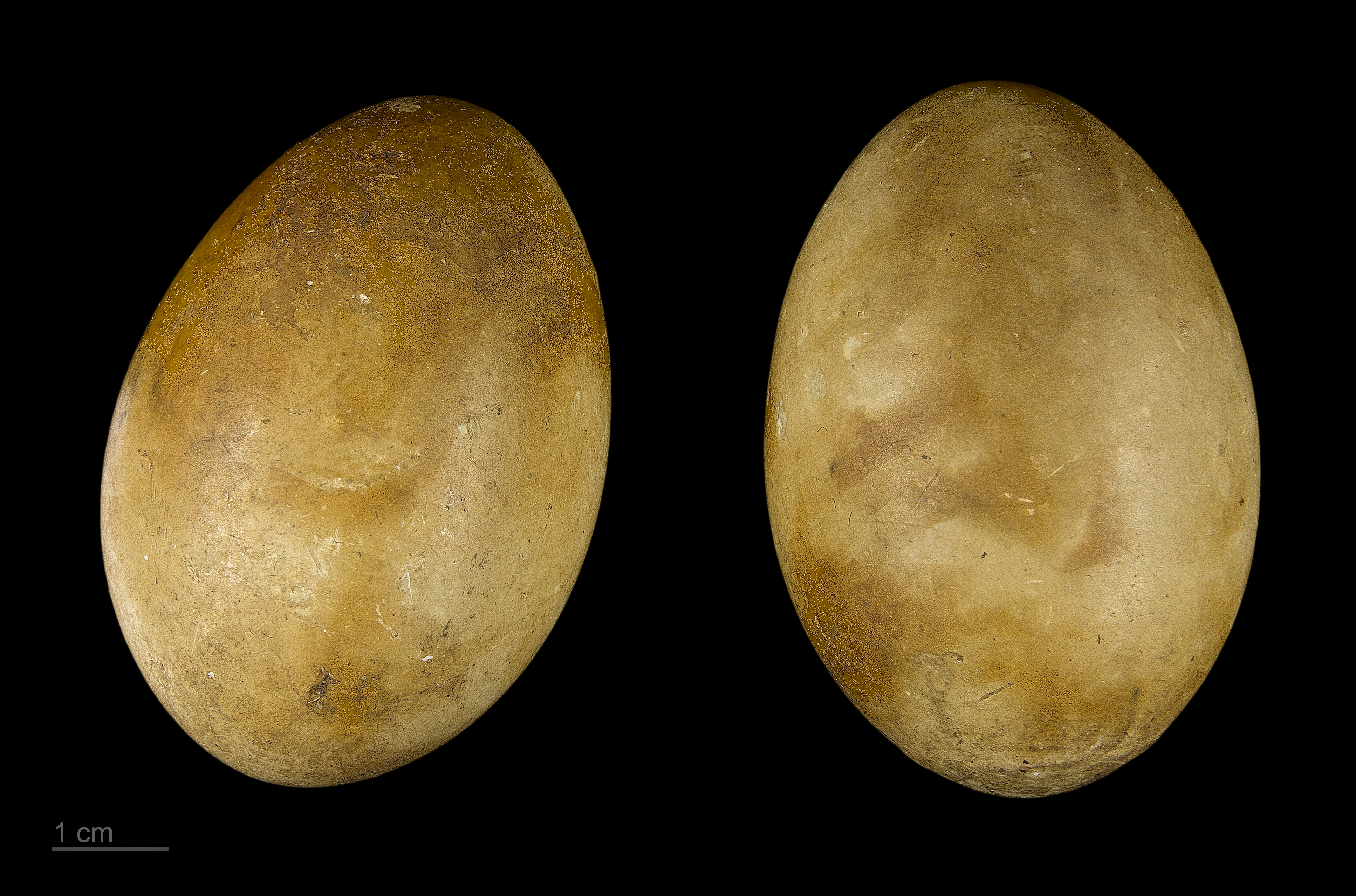 Eggs of great crested grebe Two specimens of the same spawn ; collection of Jacques Perrin de Brichambaut.